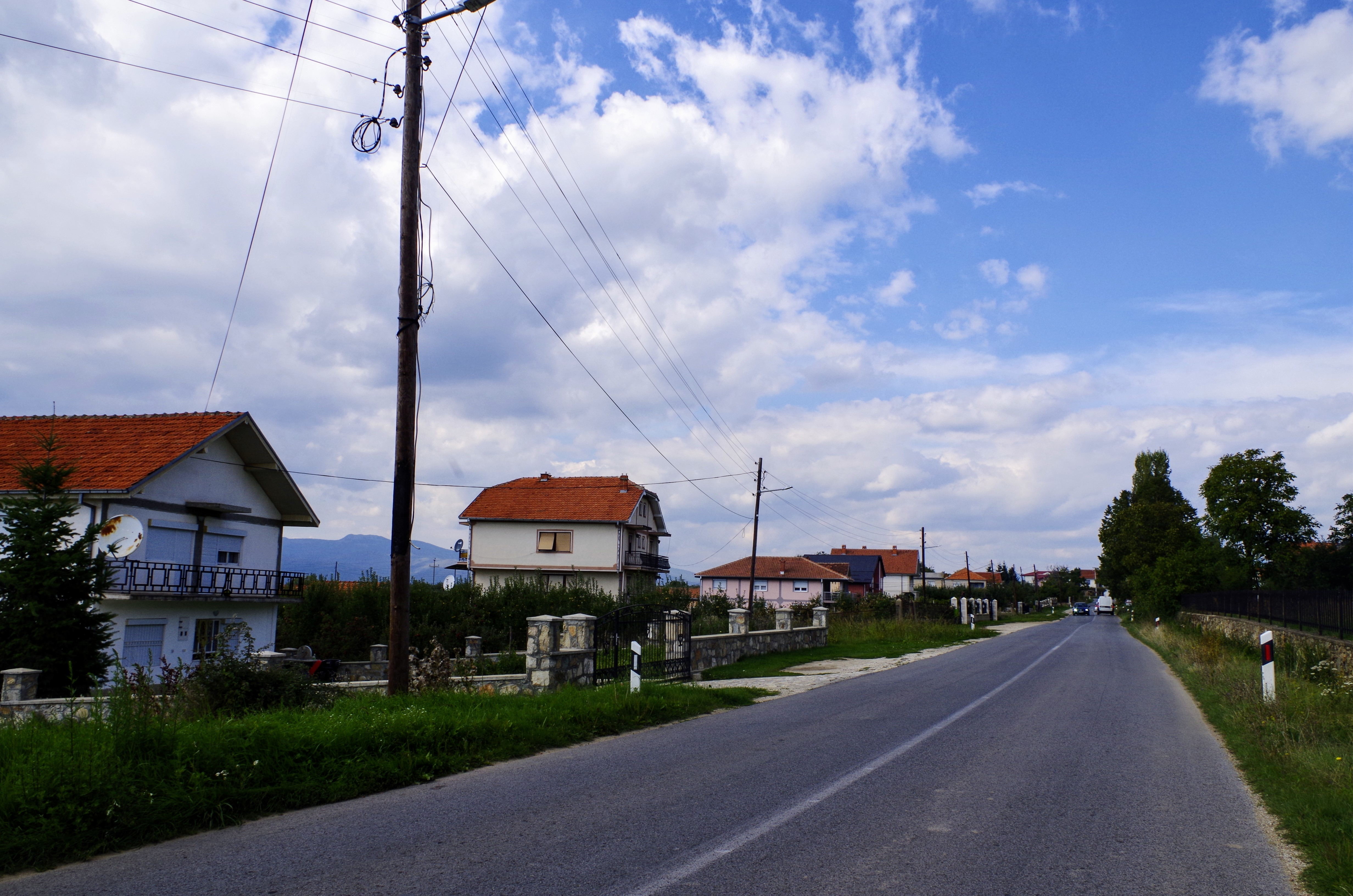 View of the village Grnčari